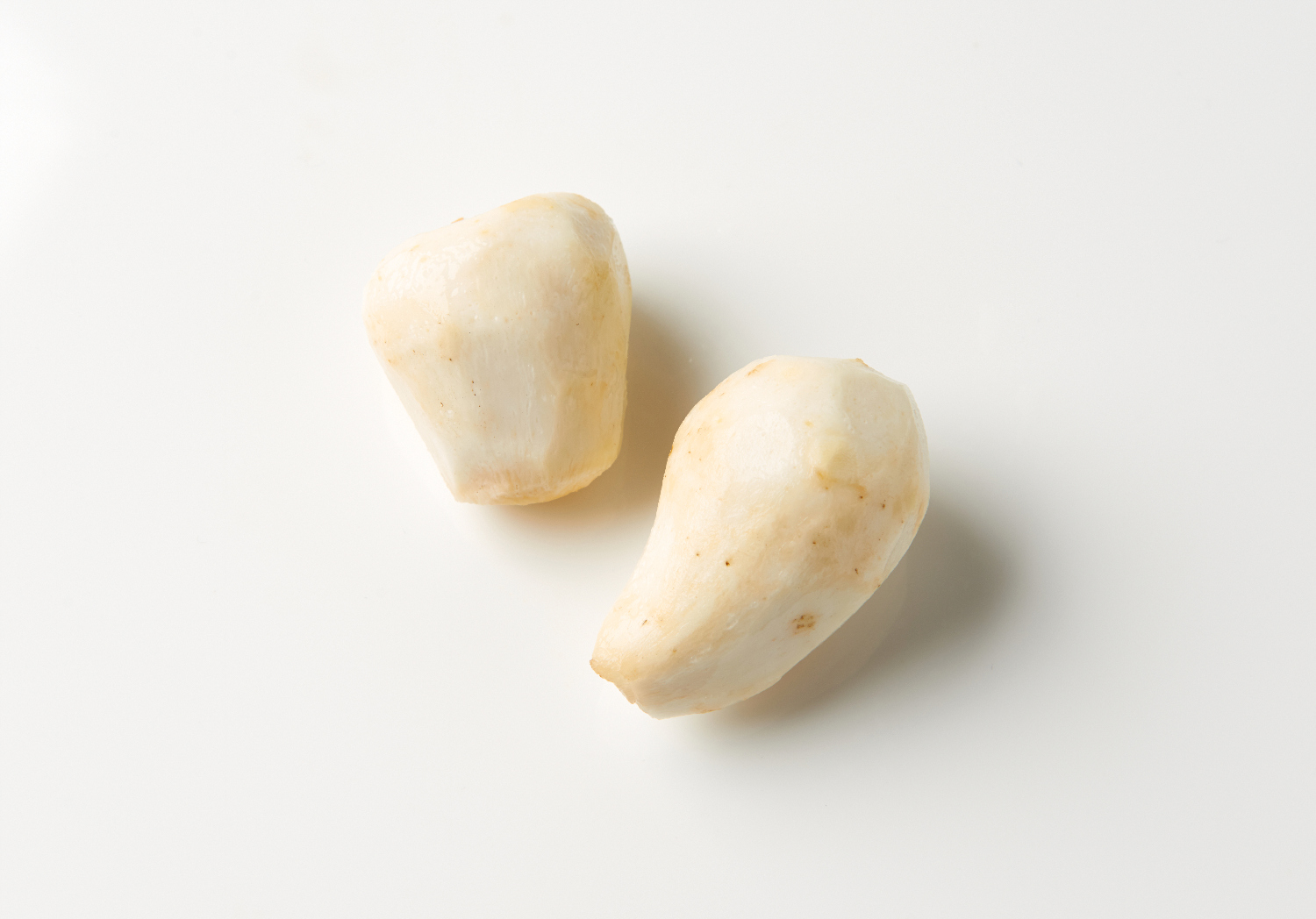 Peeled taro (Colocasia esculenta) corms